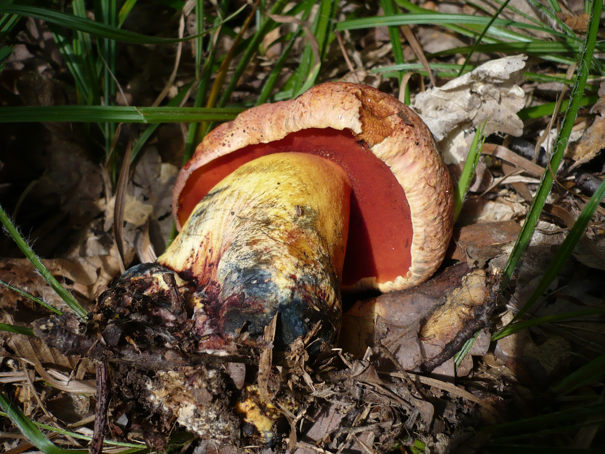 Boletus rhodopurpureus Smotl. Location: Gelber Berg, Purkersdorf, Bezirk Wien-Umgebung, Lower Austria, Austria For more information about this, see the observation page at Mushroom Observer.